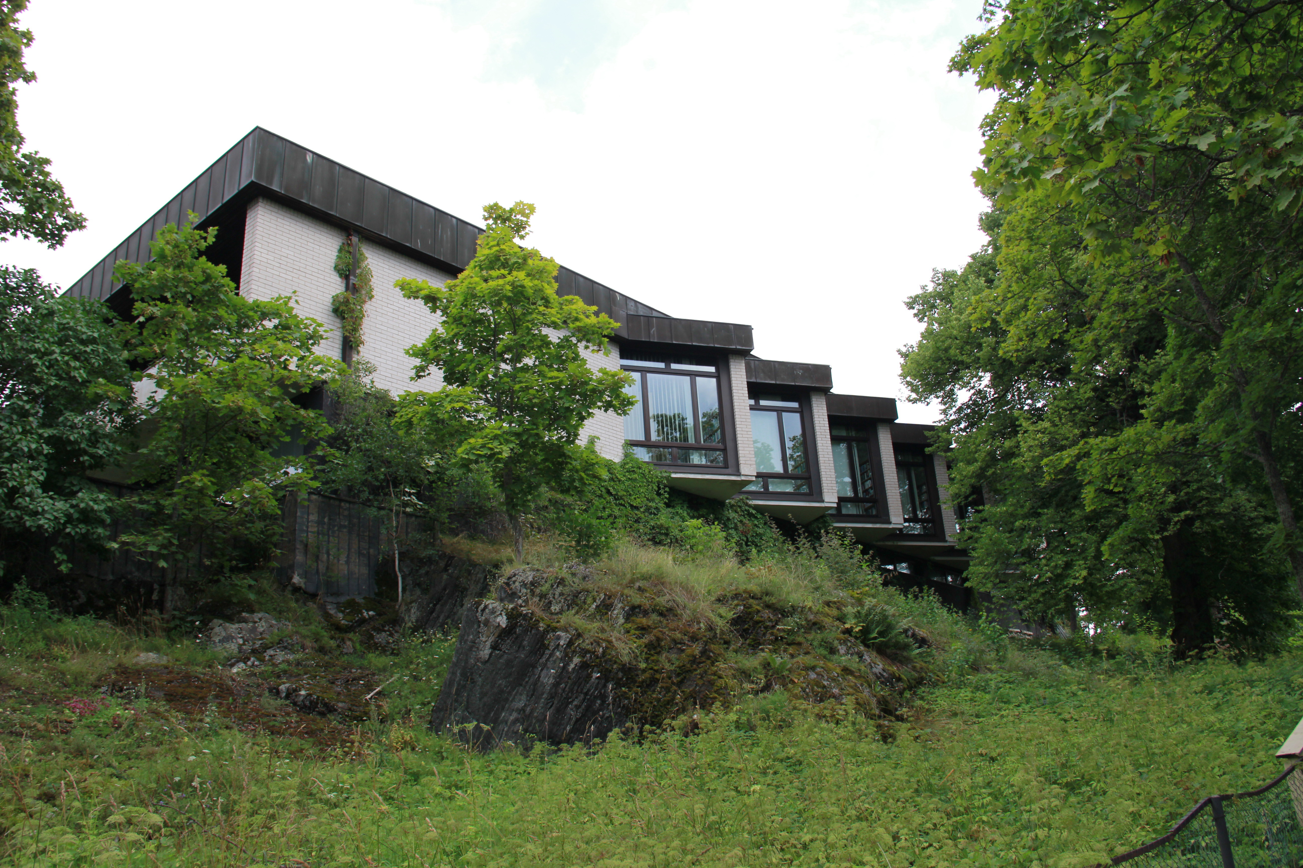 Nälkälinnanmäki, Savonlinna, Finland. A hill near Olavinlinna Castle. Main library completed in 1964, architects Kaisa Harjanne and Maija Suurla.